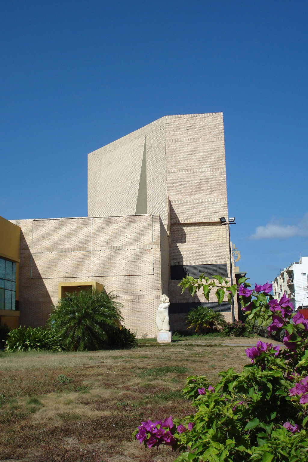 Punto Fijo city teather, Venezuela.